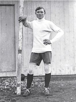 Argentinian goalkeeper Juan Botasso